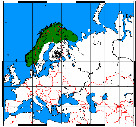 Range map for Norway lemming (Lemmus lemmus), made by me with help of Map depending on the range map at IUCN red list.